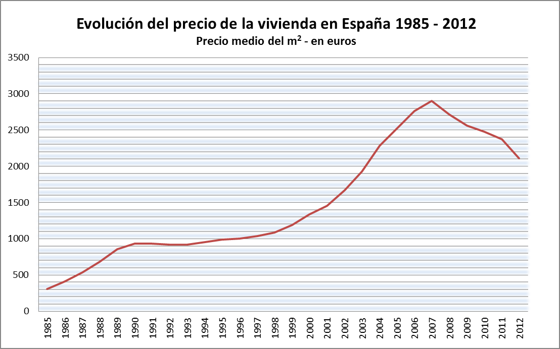 Evolution Housing Price Spain 1985-2012. Economic and real estate bubble of 2007. Great Recession. Crisis in Spain. average price per square meter